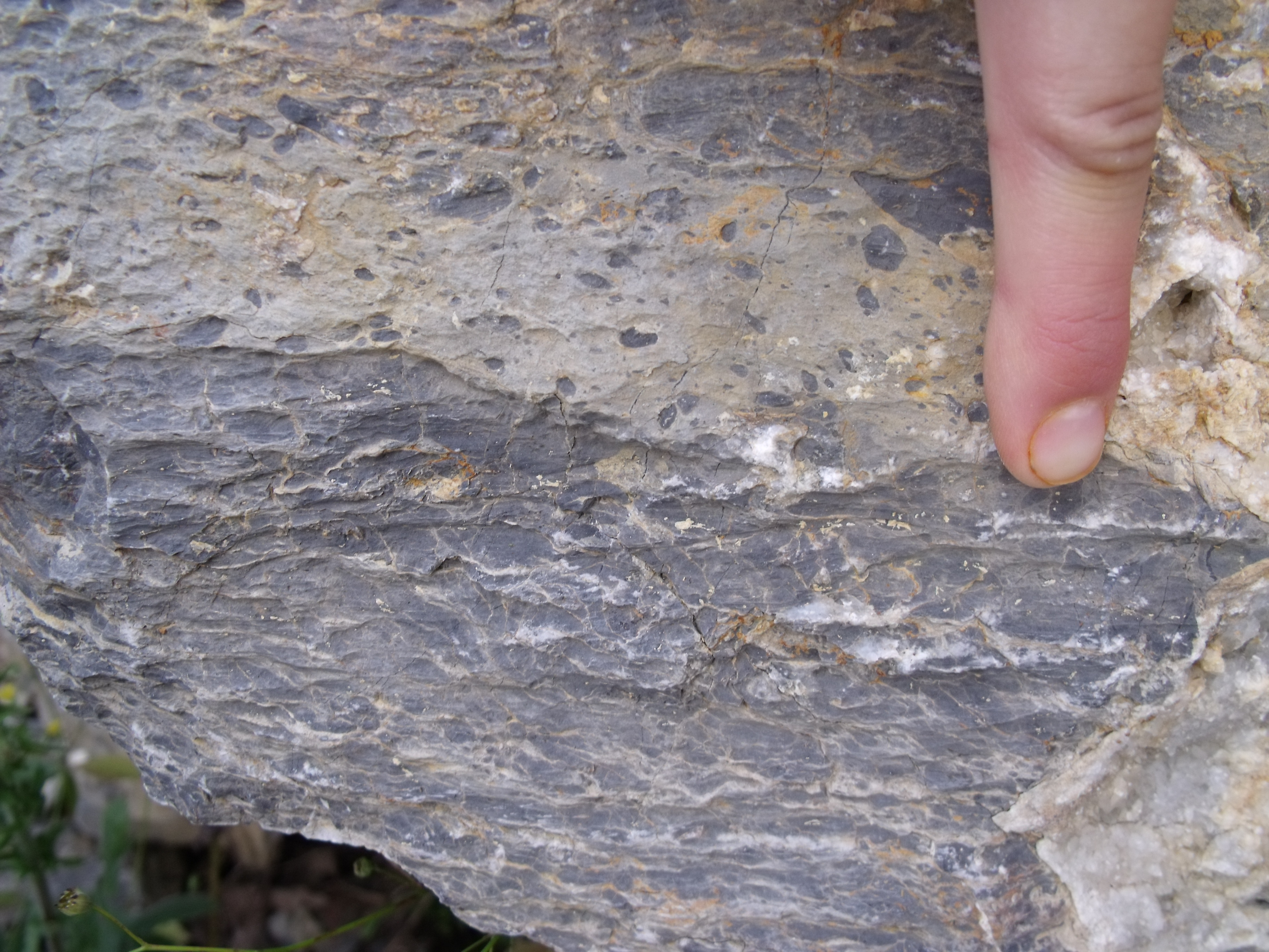 Transposition of s-planes in limestone, western Serbia